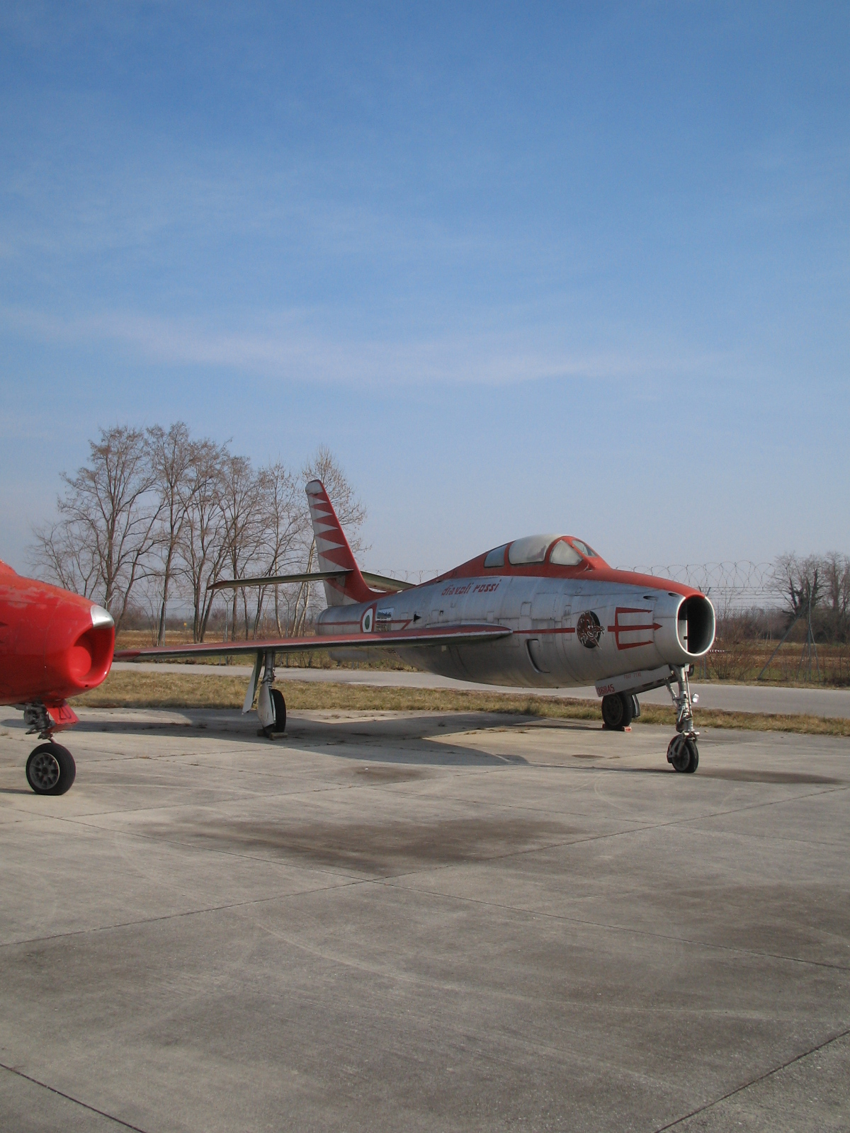 Italian Air Force Republic F-84